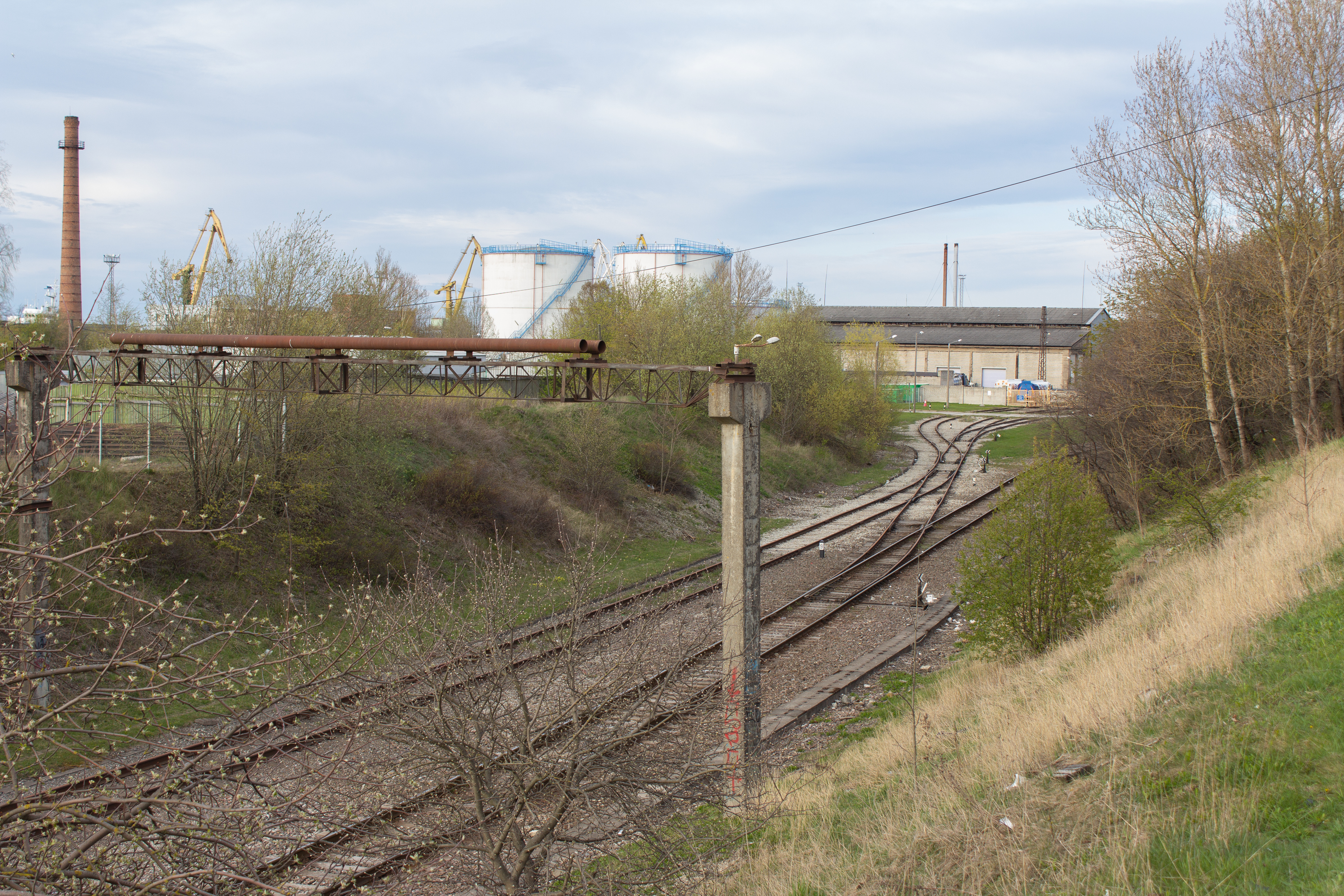 View from Sitsi Hill to the Hundipea Peninsula (2020-05-06). Tööstuse Street in Tallinn (Estonia)